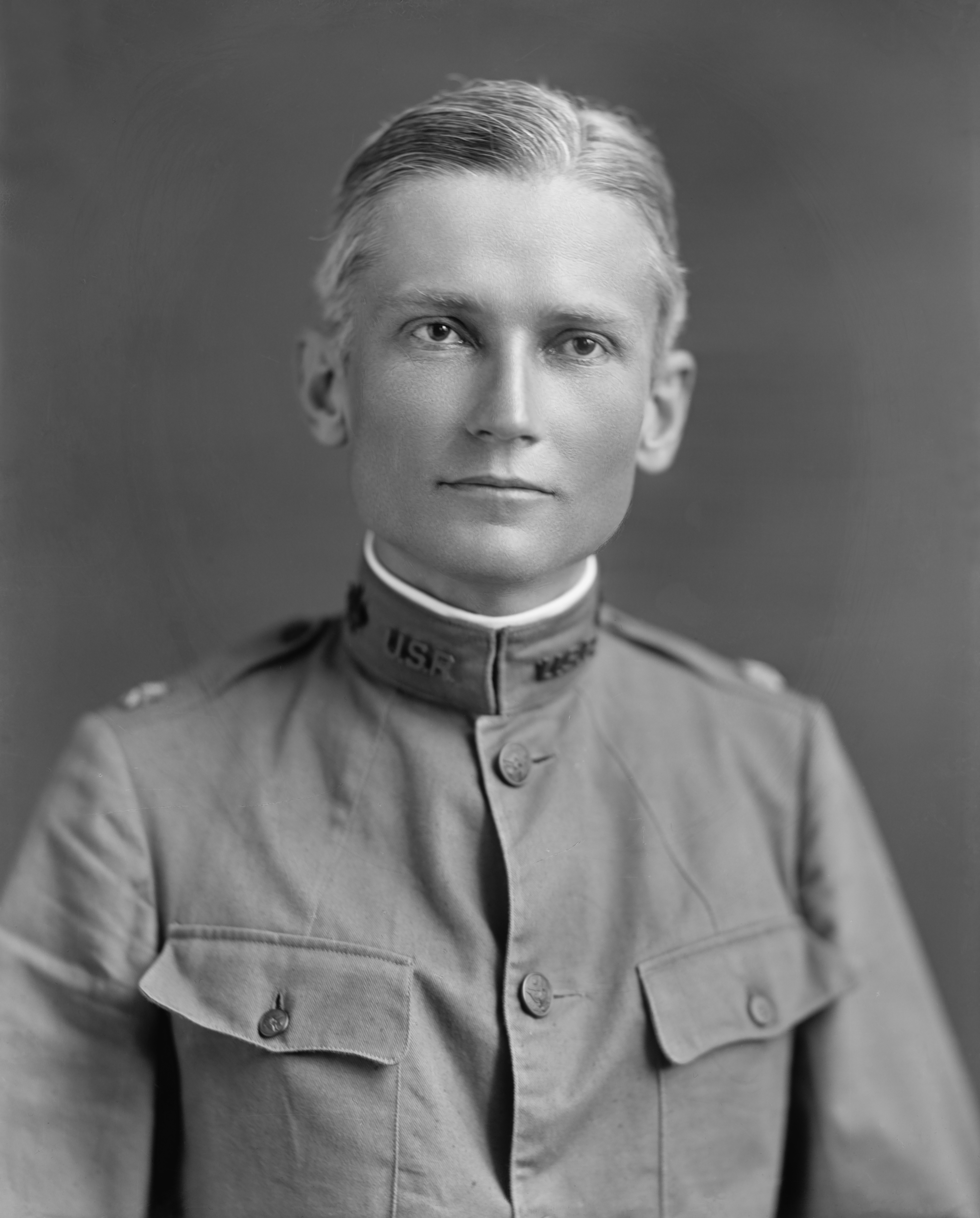 Title: BINGHAM, HIRAM. MAJOR Creator(s): Harris & Ewing, photographer Date Created/Published: [between 1905 and 1945] Medium: 1 negative : glass ; 8 x 10 in. or smaller Reproduction Number: LC-DIG-hec-15992 (digital file from original negative) Rights Advisory: No known restrictions on publication. Call Number: LC-H25- 12847-BA [P&P] Repository: Library of Congress Prints and Photographs Division Washington, D.C. 20540 USA